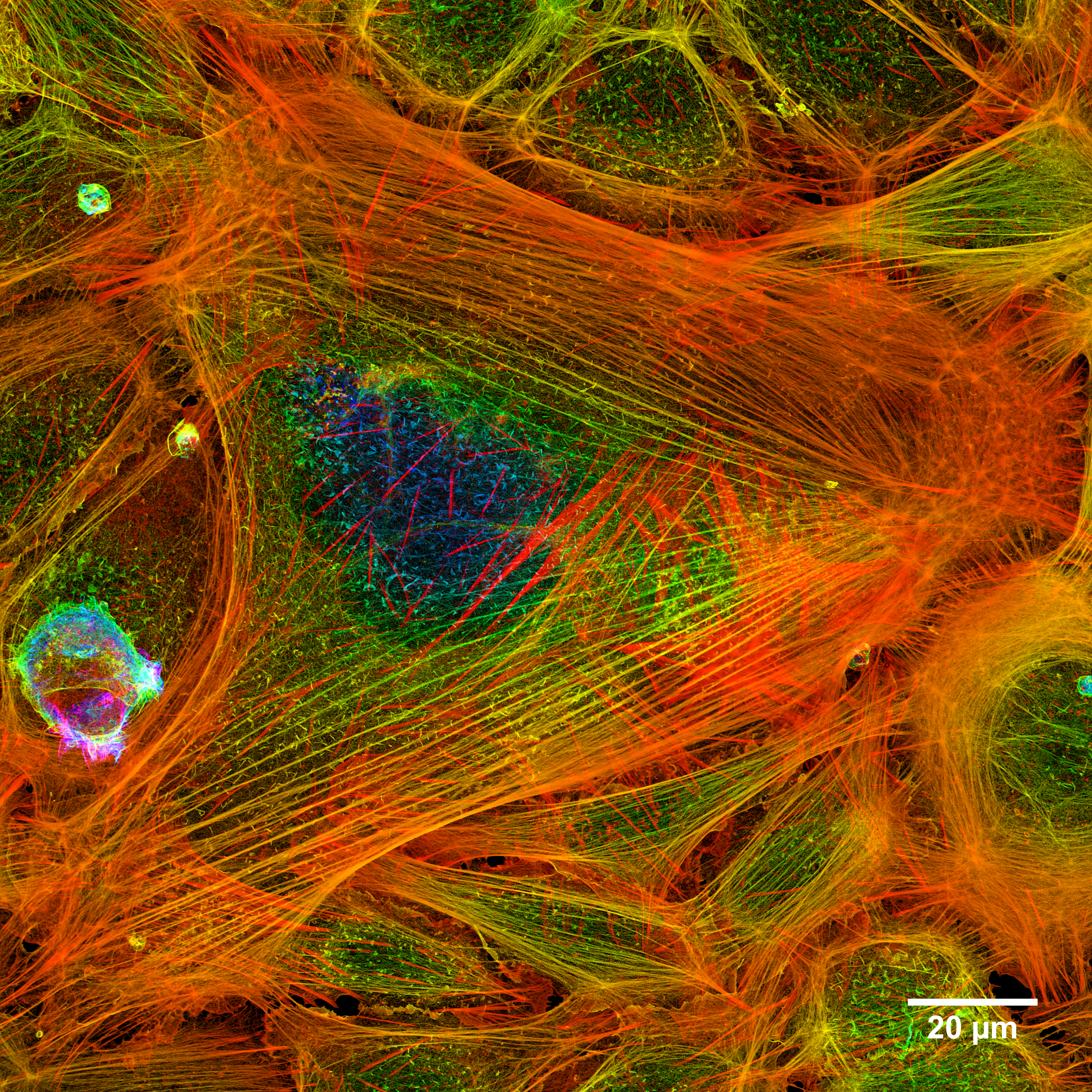 A merged stack of confocal images showing actin filaments within a cell. The image has been colour coded in the z axis to show in a 2D image which heights filaments can be found at within cells. Dimensions XY: 4096x4096 px (167.92x167.92 µm) Z: 103 slices (8.56 µm) (merged into a single slice) Scanner Settings ScanMode: xyz Pinhole [m]: 95.5 µm Pinhole [airy]: 1.00 Total Size-Width: 167.9 µm Total Size-Height: 167.9 µm Total Size-Depth: 8.6 µm StepSize: 0.08 µm Voxel-Width: 41.0 nm (pixel size) Voxel-Height: 41.0 nm (pixel size) Voxel-Depth: 83.9 nm Voxel-Volume: 141035.9 nm³ Zoom: 1.5 Objective: HCX PL APO CS 63.0x1.40 OIL UV Numerical aperture: 1.40